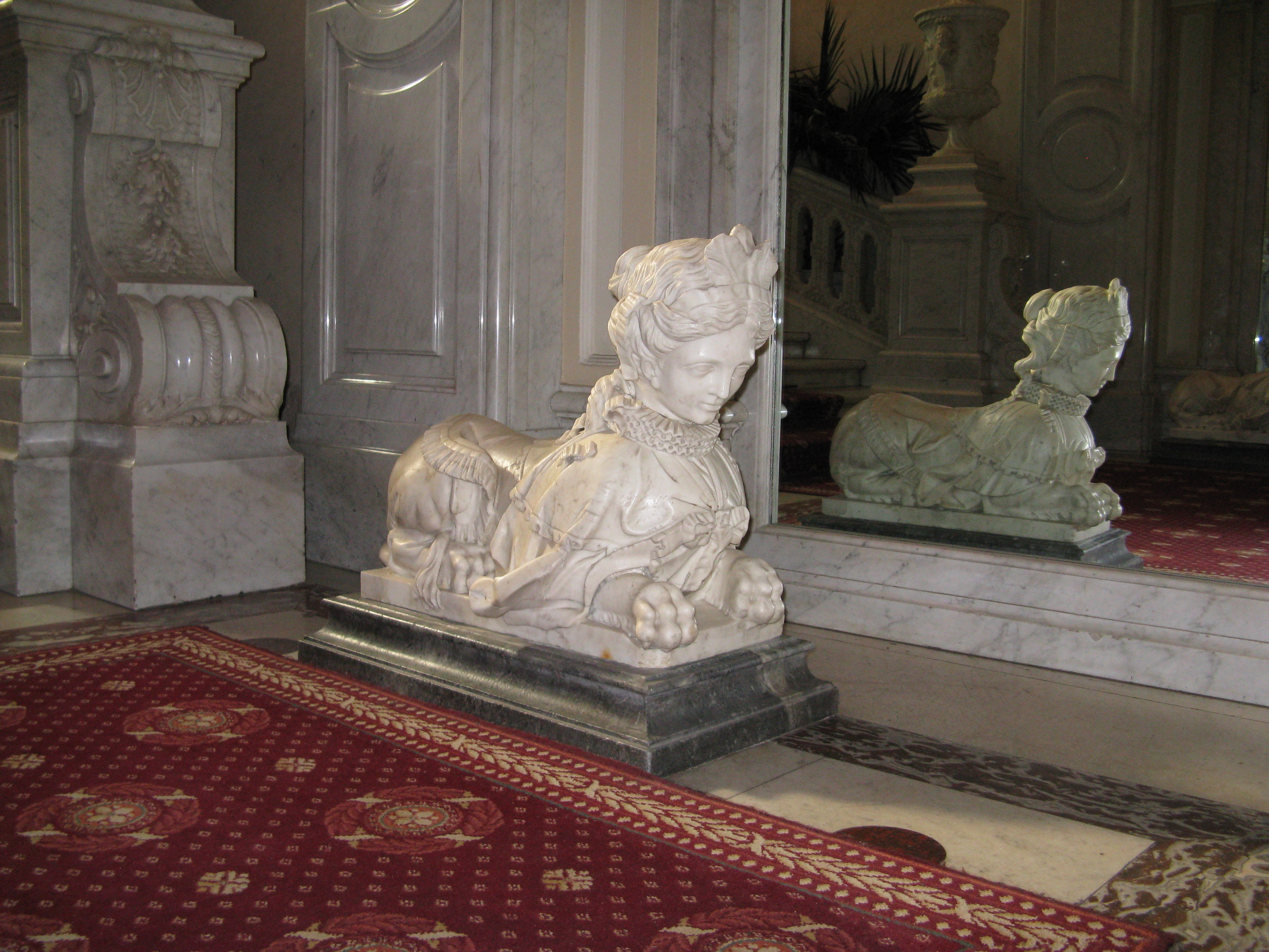 Sphinx at Yusupov Palace.